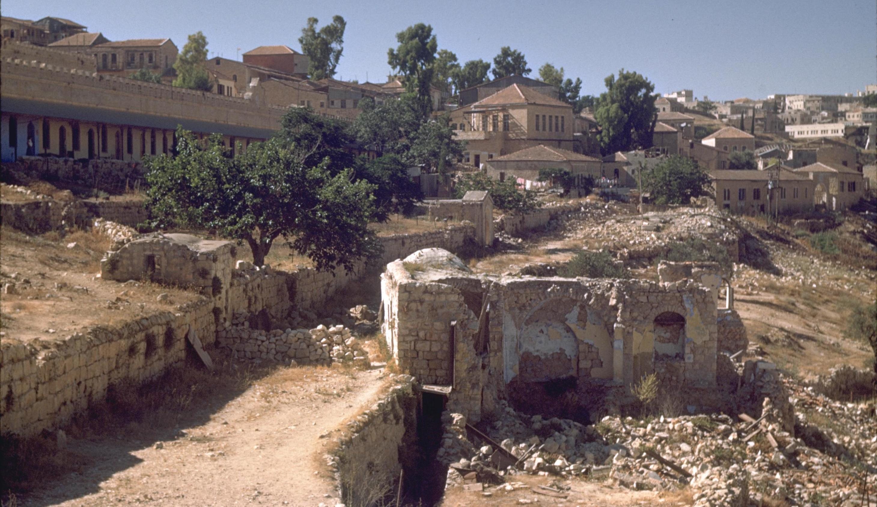 Original Description: GENERAL VIEW OF "YEMIN MOSHE", JERUSALEM.